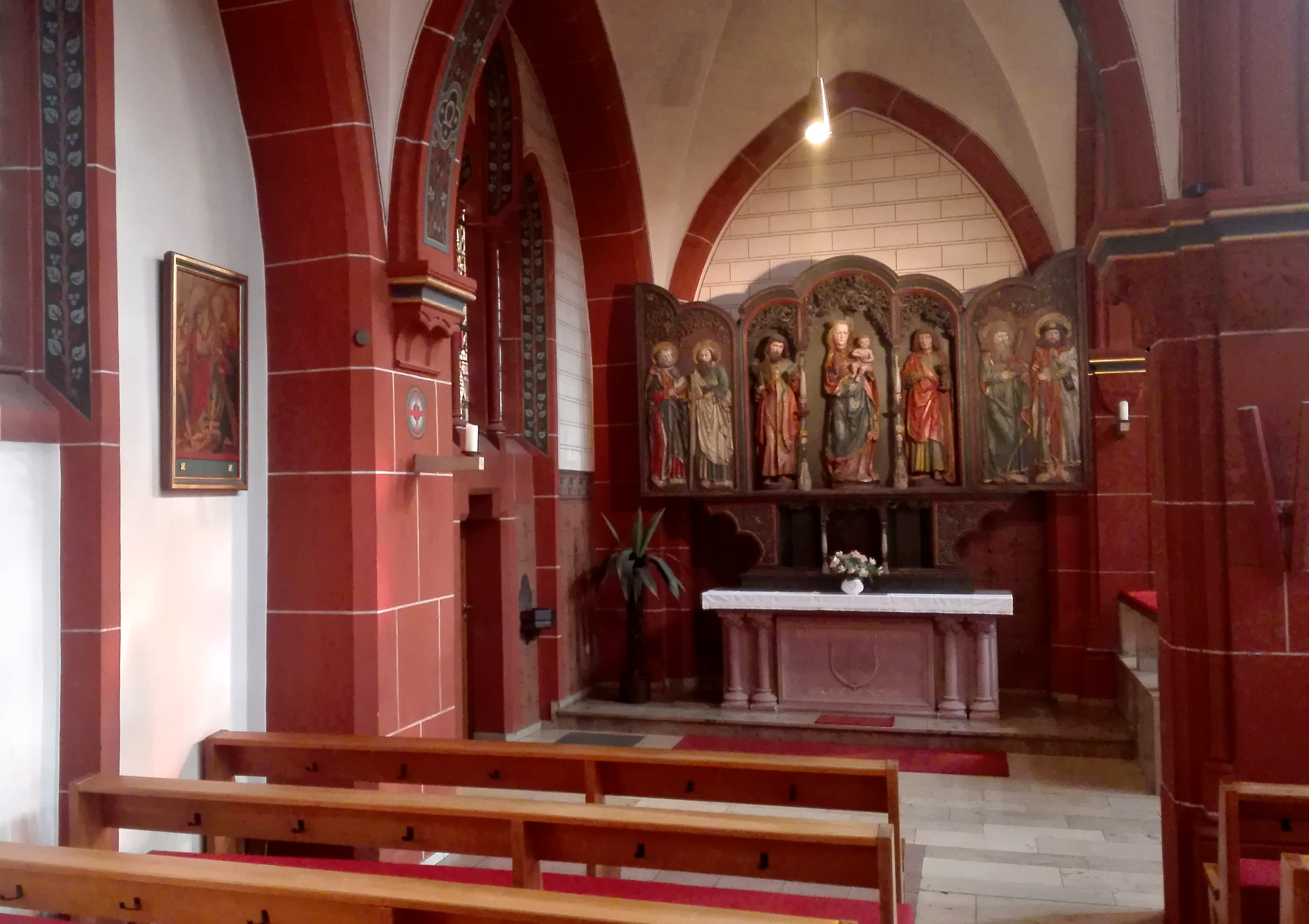 Reredos of Mary (c. 1520-30) in the flanking aisle of the Parish church of St. Matthew in Rodgau-Nieder-Roden inscribed MATER NIEDERRODANIS ORA PRO NOBIS (Rodgau-Madonna pray for us)